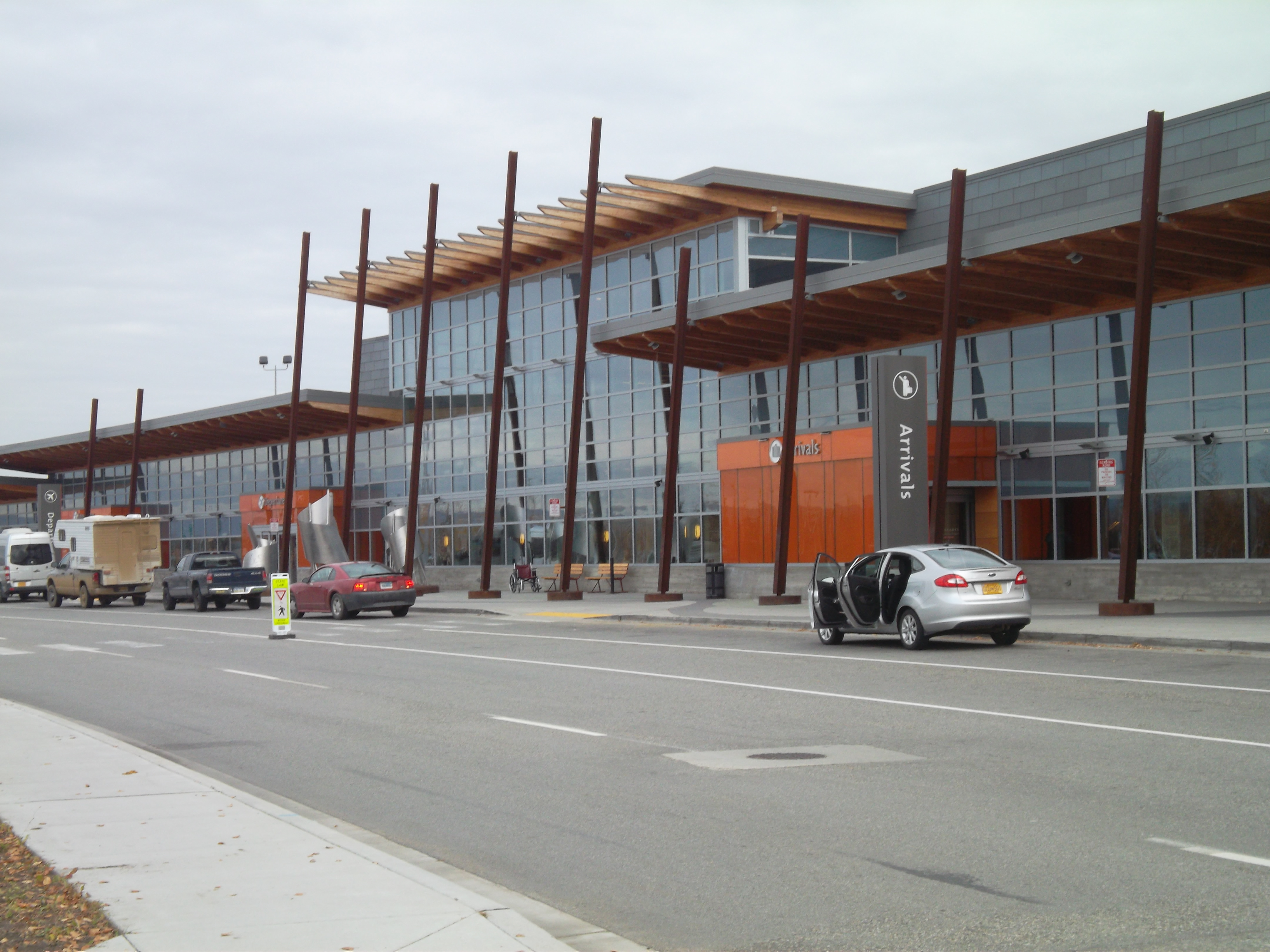 Fairbanks International Airport terninal